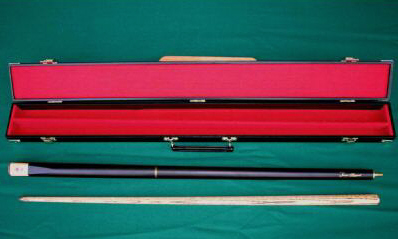 A snooker cue and case.